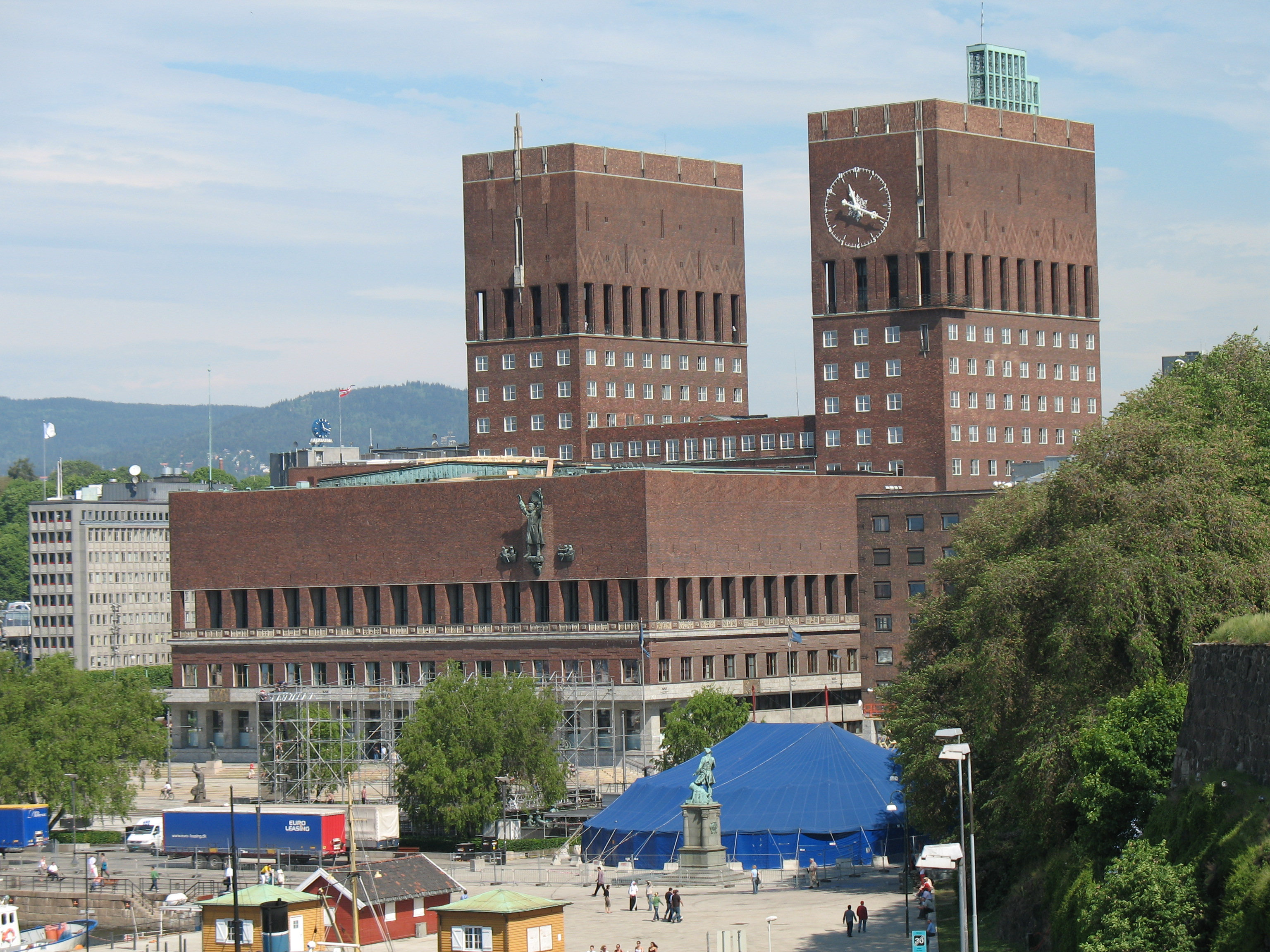 The city hall of Oslo, Norway.